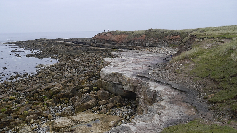 Limestone pavement, Ness End